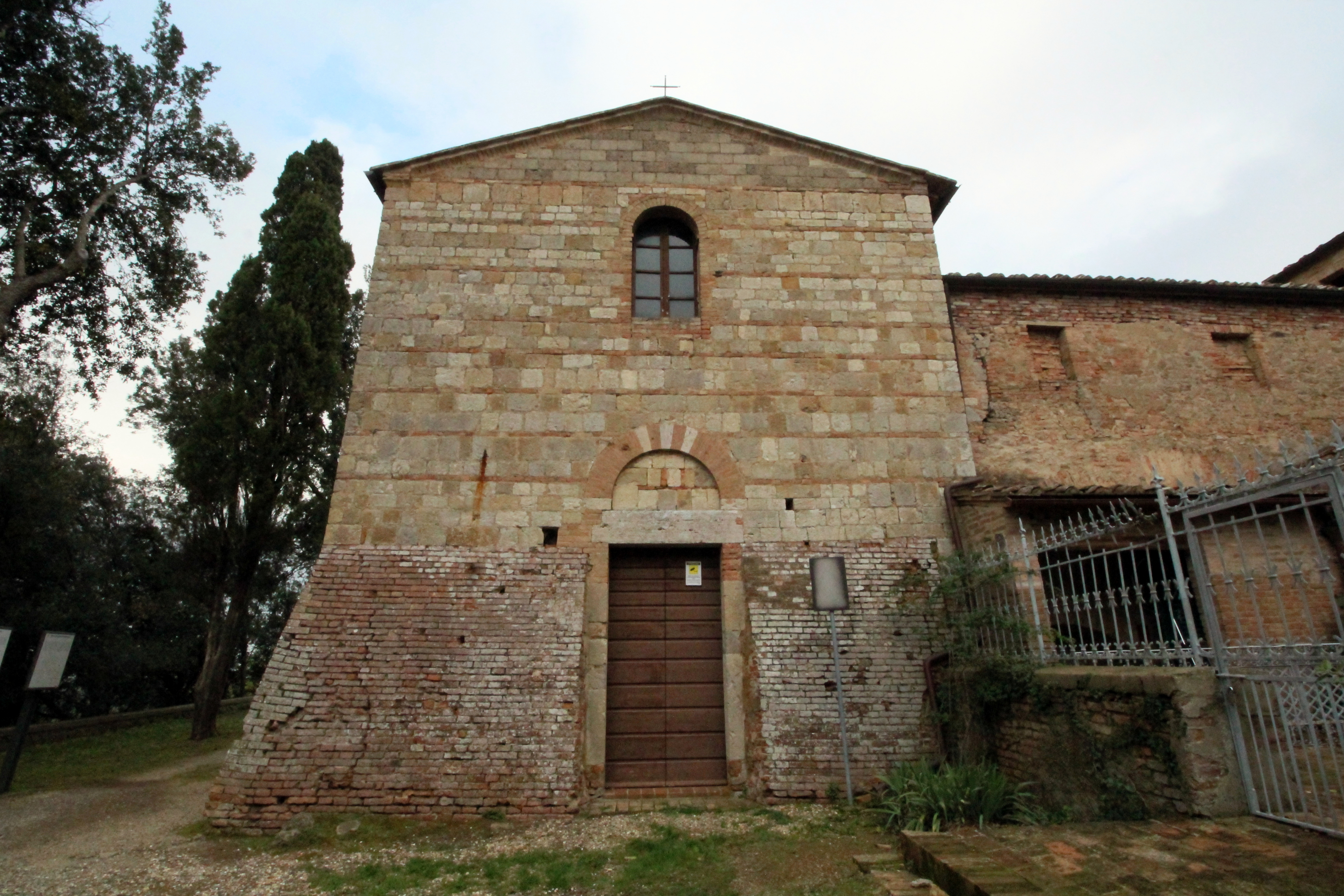 Facade of the Church Sant’Innocenzo a Piana (Pieve di Piana), west of Buonconvento, Province of Siena, Tuscany, Italy